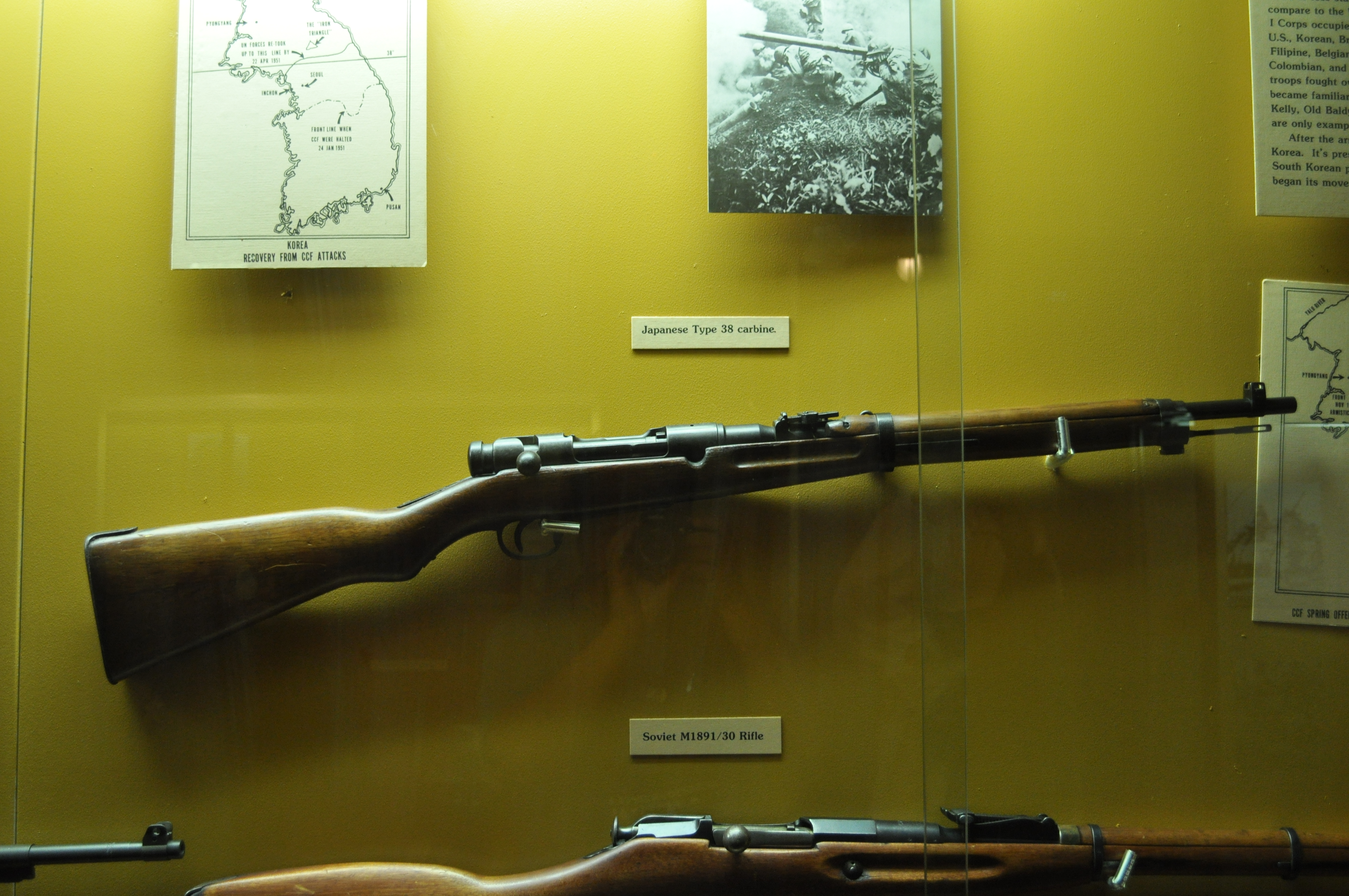 Japanese Type 38 carbine, Fort Lewis Military Museum, Fort Lewis, Washington, USA. Part of a display of the weapons of the Korean War.